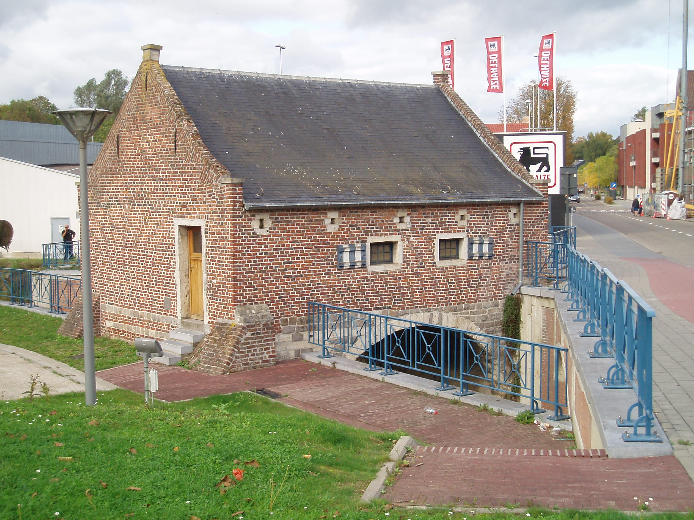 Sint-Helenasluis Tienen